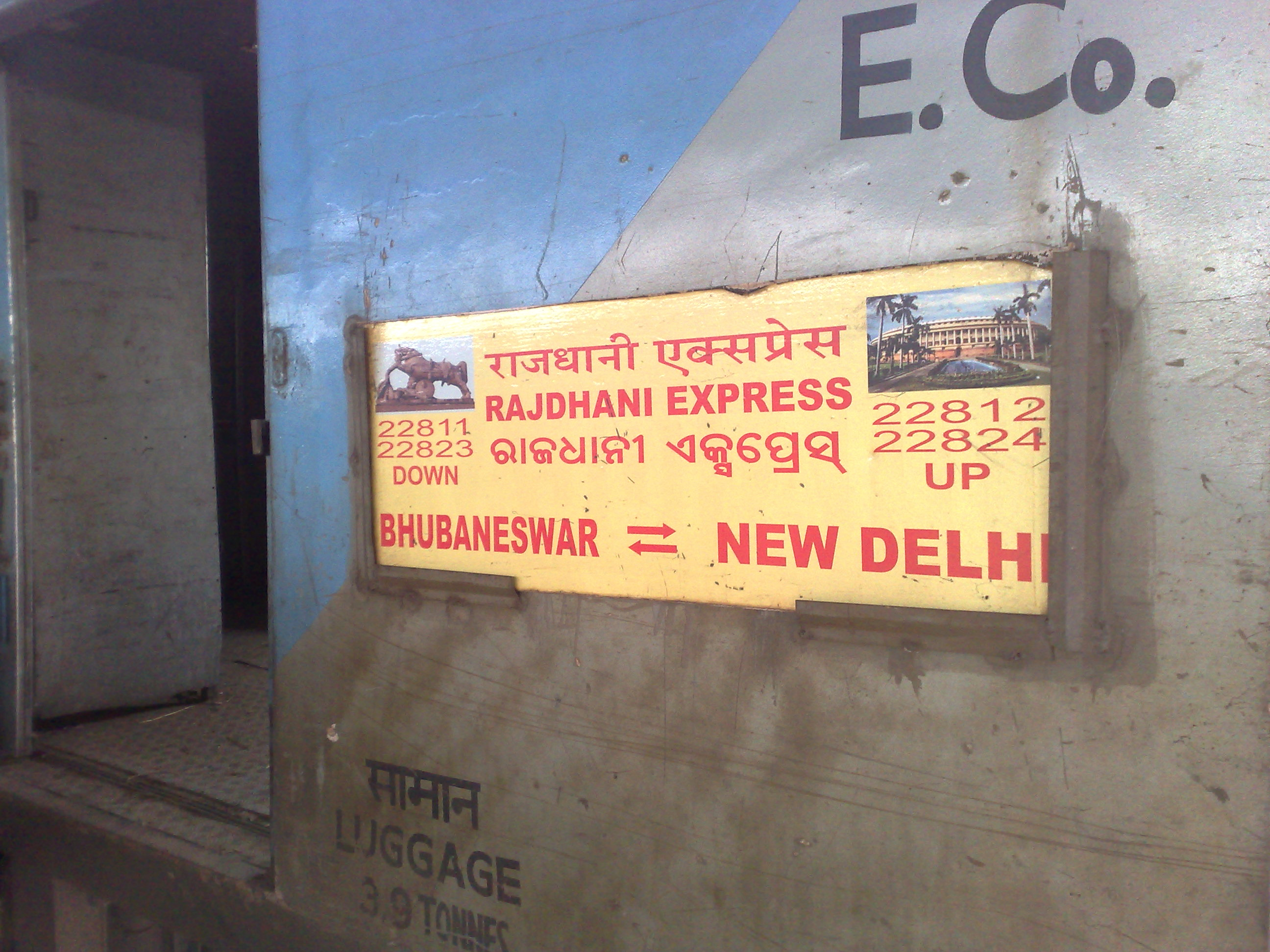 Bhubaneswar Rajdhani Express